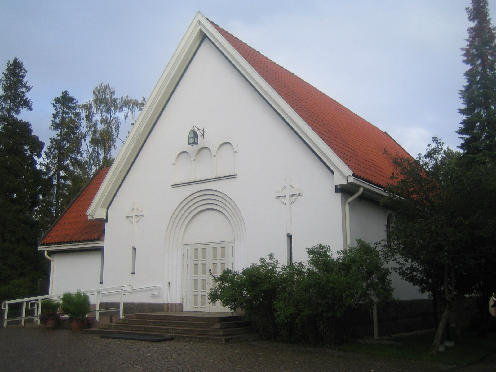 Vanha kappeli (Old cemetery chapel) at Oulu cemetary in Intiö, Oulu, Finland. The chapel was designed by architect Otto Ferdinand Holm, and it was inaugurated in 1923.